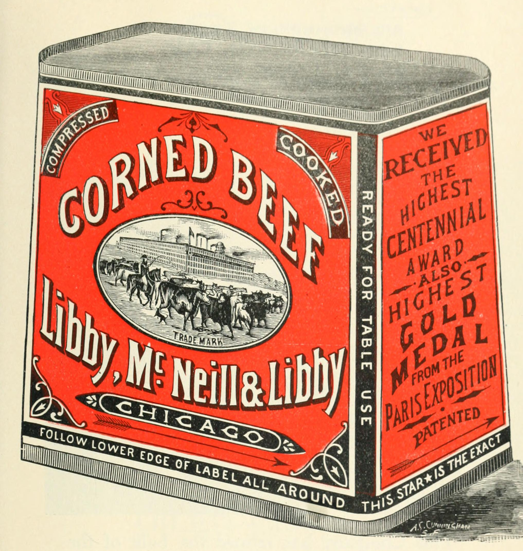 Image of a trapezoidal can of corned beef by Libby, McNeill & Libby of Chicago, Ill.; from a guidebook published by the Alaska Commercial Company for people traveling to Alaska and the Yukon in the Klondike Gold Rush. (cropped to show can; rest of ad was about the regional distributor)